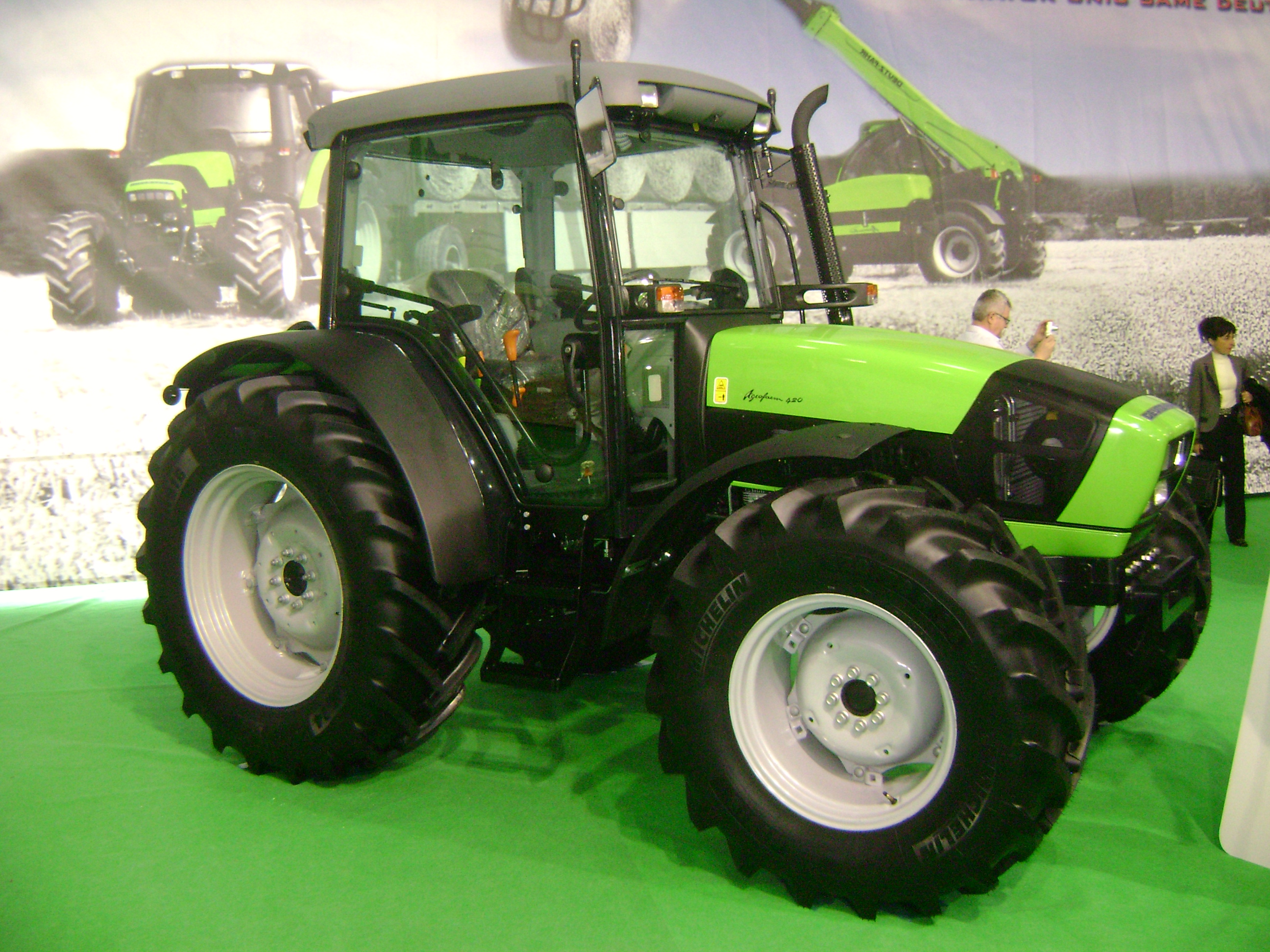 Deutz-Fahr Agrofarm 420 tractor seen in Bucharest, Romania at Romexpo during the 2010 IndAgra Farm international exhibition of equipment and products from the fields of agriculture, animal husbandry and foodstuff